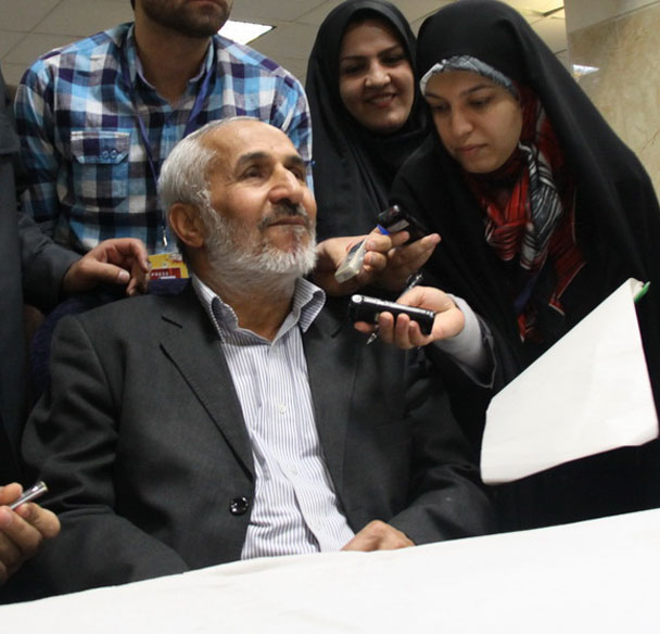 Davoud Ahmadinejad (older brother of Mahmoud Ahmadinejad) registered his candidacy in 2013 Iranian presidential election.